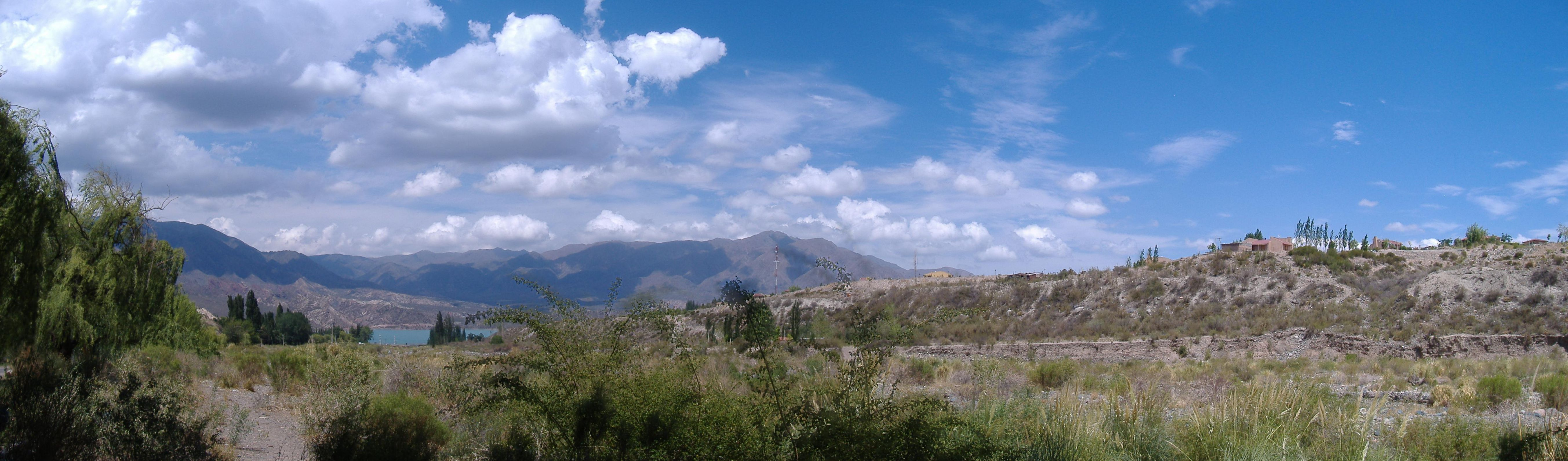 A view of the district of Potrerillos, in Luján de Cuyo, Mendoza, Argentina (about 1,400 m a.m.s.l.). Amid the arid landscape of pre-Andean hills the Potrerillos reservoir can be seen on the left of the picture.